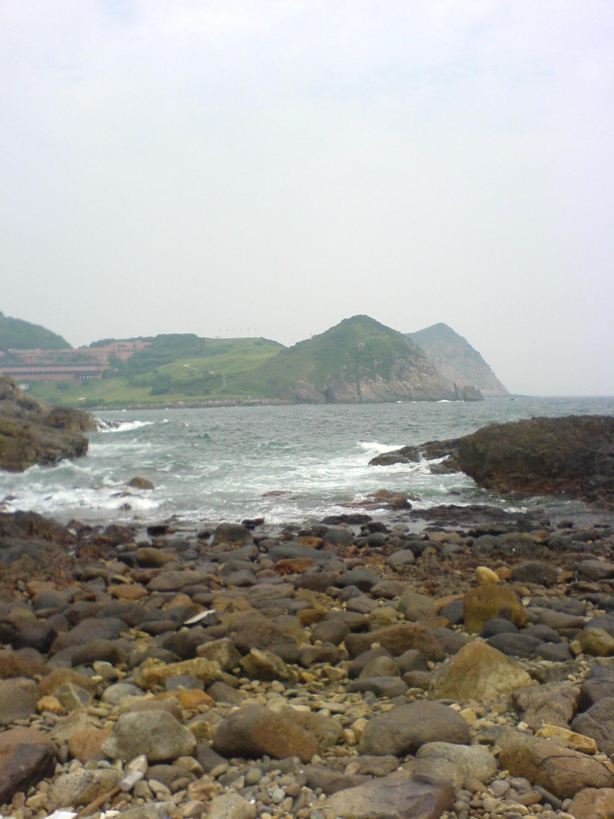 A view of Clear Water Bay Peninsula form northeast part of Tung Lung.